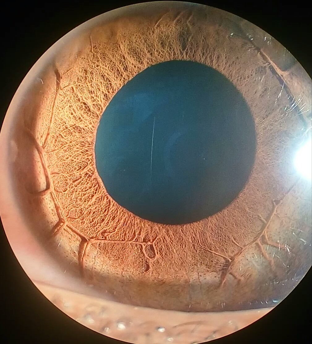 Plateau iris of a 22 years old boy